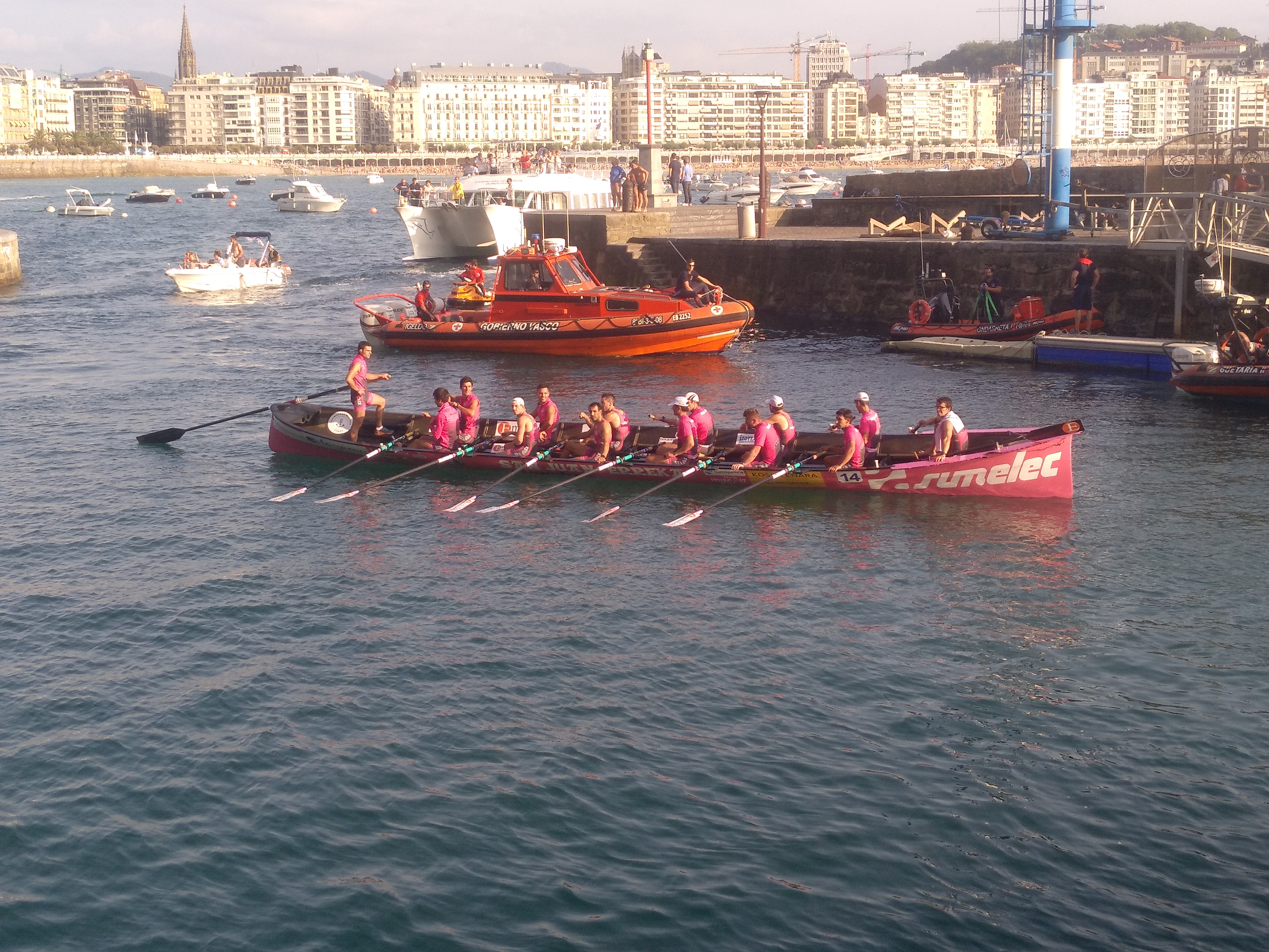 San Juan, Flag of La Concha, 2018